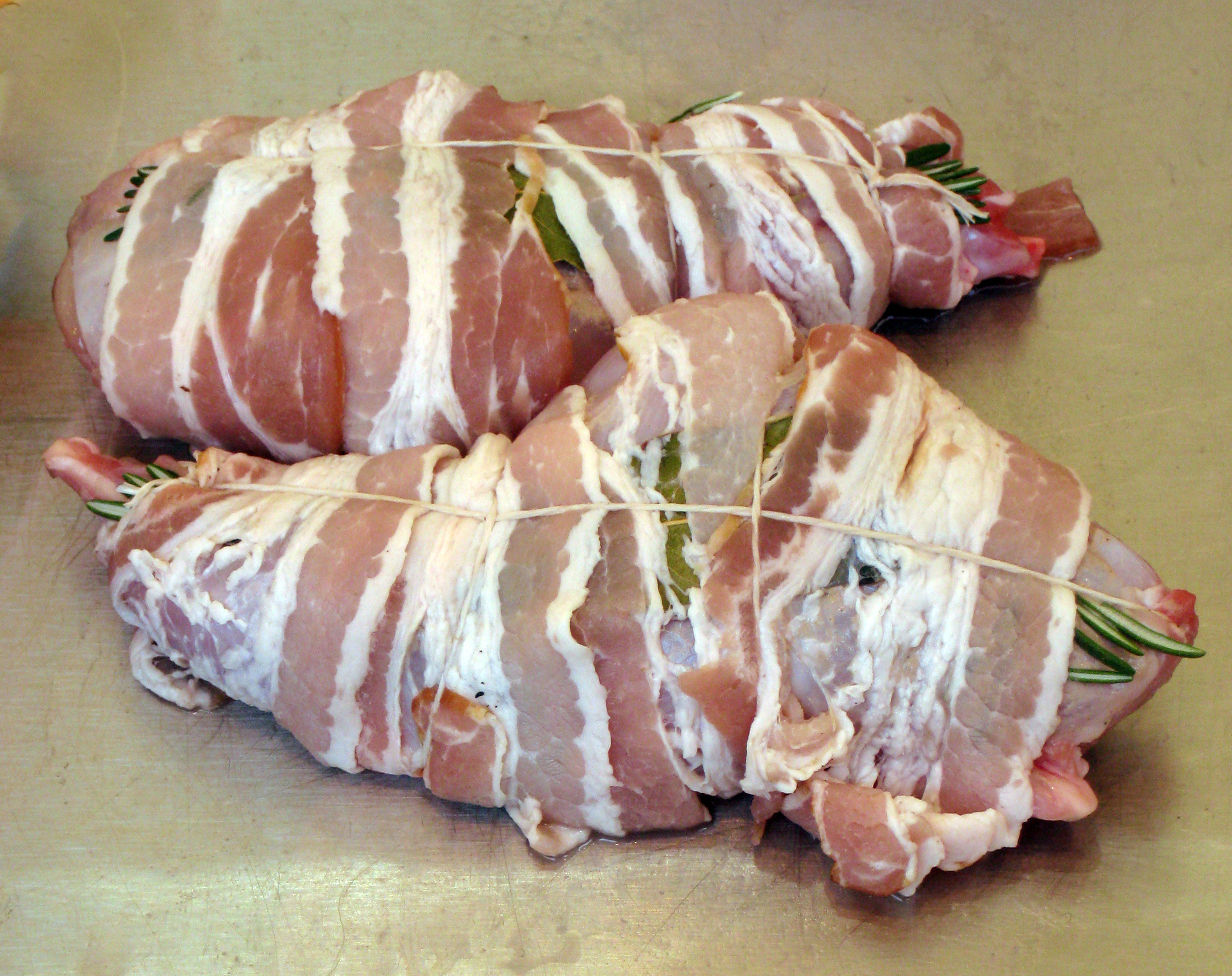 Barded rabbit limb with rosemary and bay